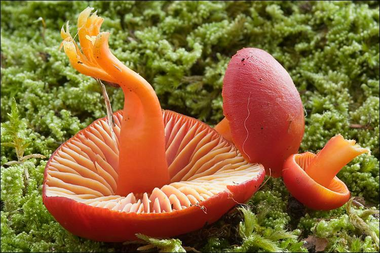 Hygrocybe coccinea (Schaeff.) P. Kumm. Location: Idrijsko, Vojsko Flats, Slovenia Observation Notes: Code: Bot_462/2010_IMG2580 Habitat: In grass, unmaintained mountain pasture, flat terrain, calcareous ground, full sun, exposed to direct rain, average precipitations 2.000-2.600 mm/year, average temperature 6-8 deg C, elevations 1.050 m (3,450 feet), Dinaric phytogeographical region. Substratum: soil Place: Vojsko flats, southeast of Smodin farm house, Idrijsko, Slovenia EC For more information about this, see the observation page at Mushroom Observer.